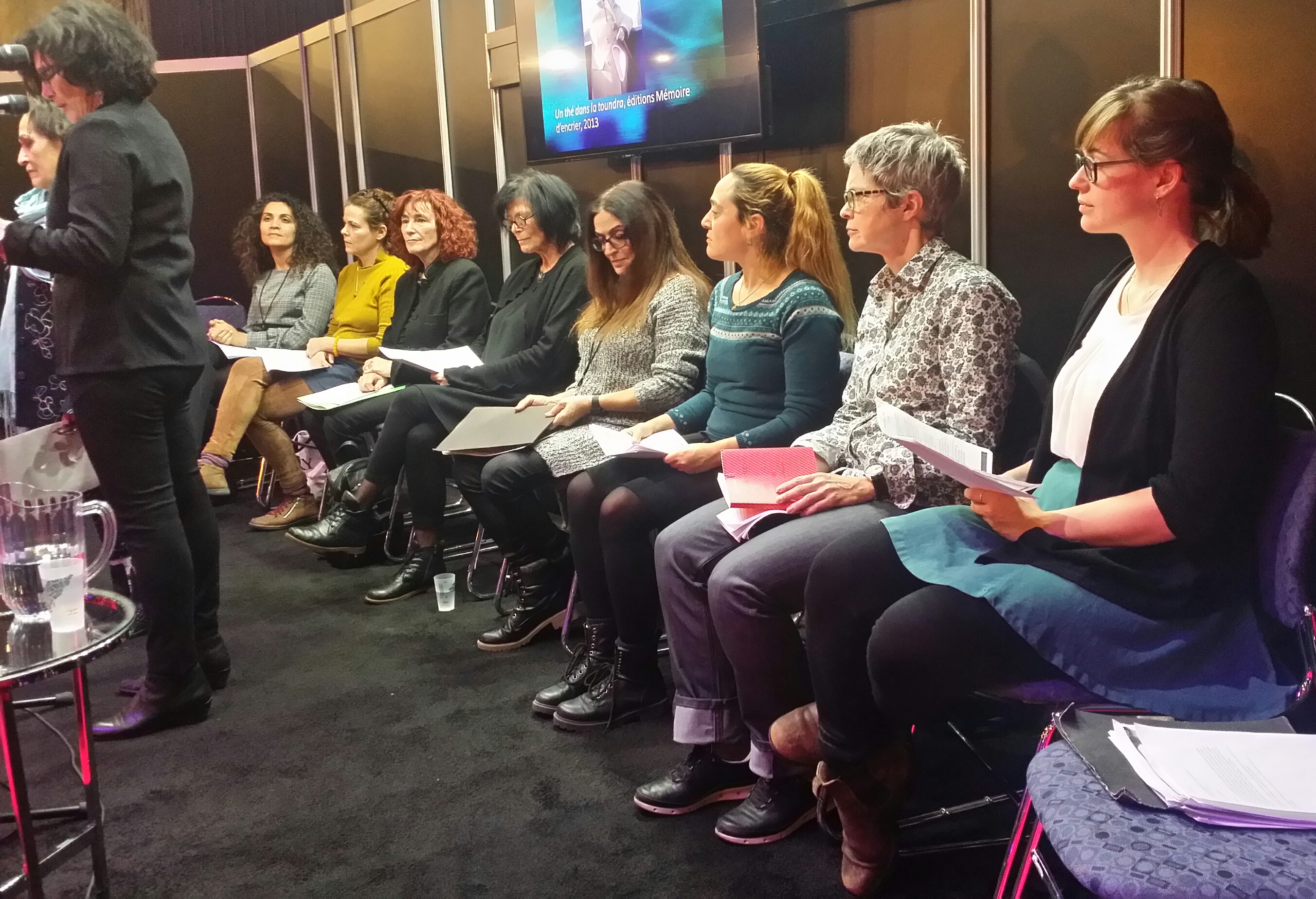 Diane Régimbald, Denise Desautels, Nora Atalla, Martine Audet, Joséphine Bacon, Claudine Bertrand, Anne-Marie Duquette, Duygu Ozmekik, Yara El-Ghadban & Laure Morali photographed in Montréal , Québec, Canada at the Salon du livre de Montréal 2018.